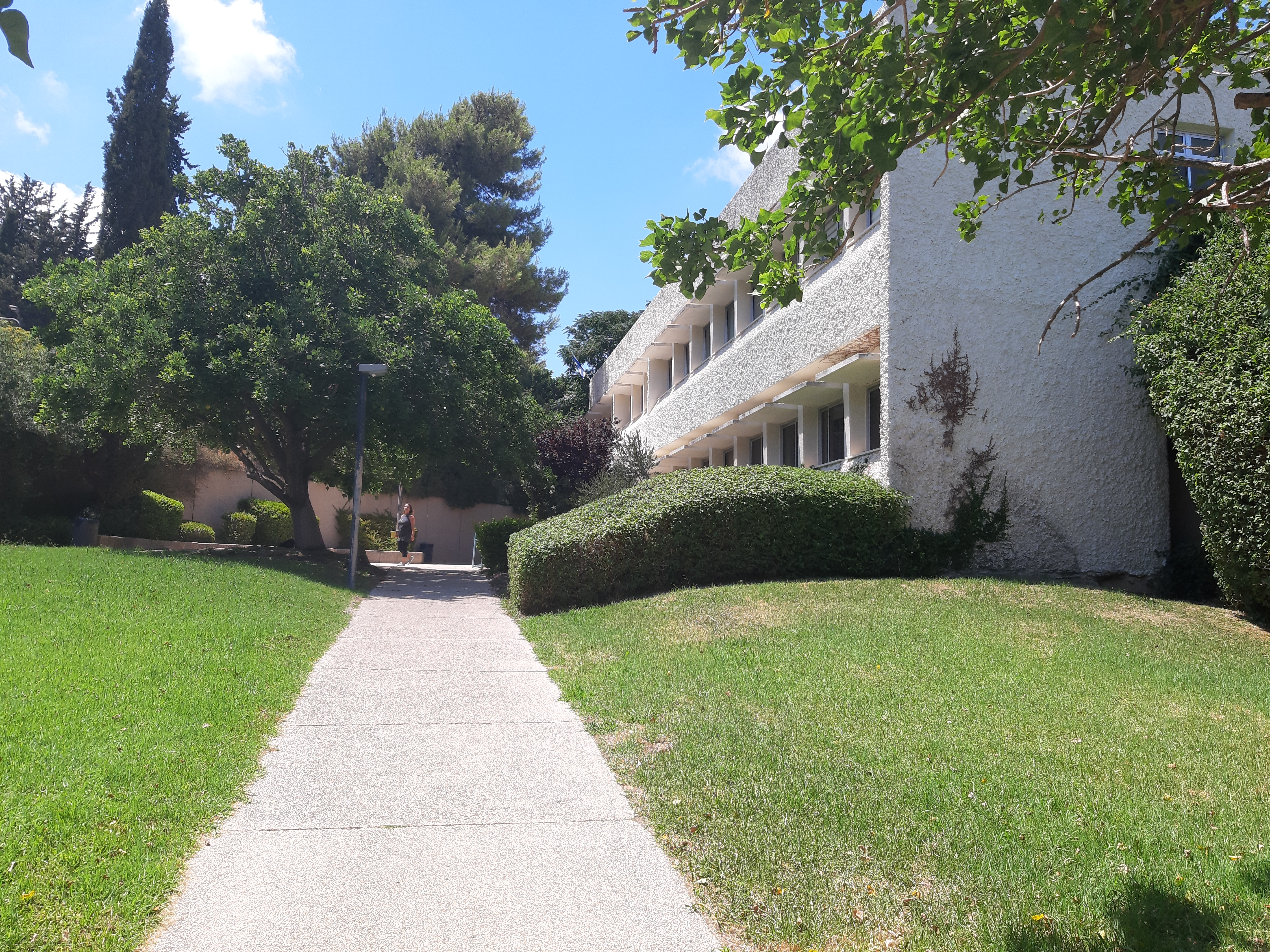 The faculty's building in the Technion campus